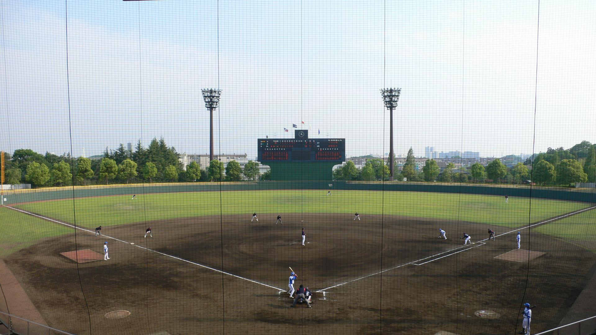 Ageo_Citizens_Stadium(上尾市民球場) in Ageo city, Saitama, Japan.